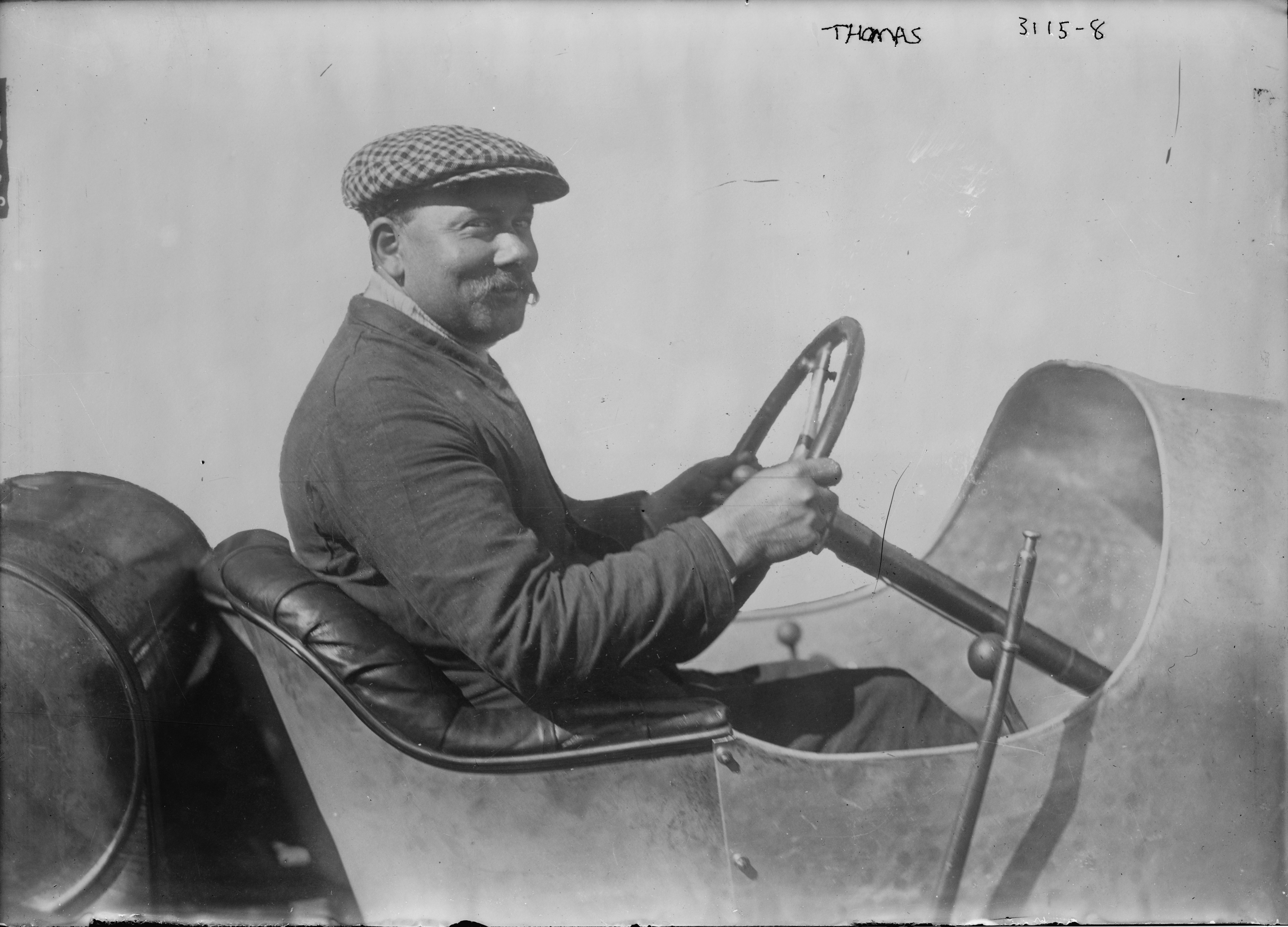 René Thomas at the 1914 Indianapolis 500 on Saturday, May 30, 1914